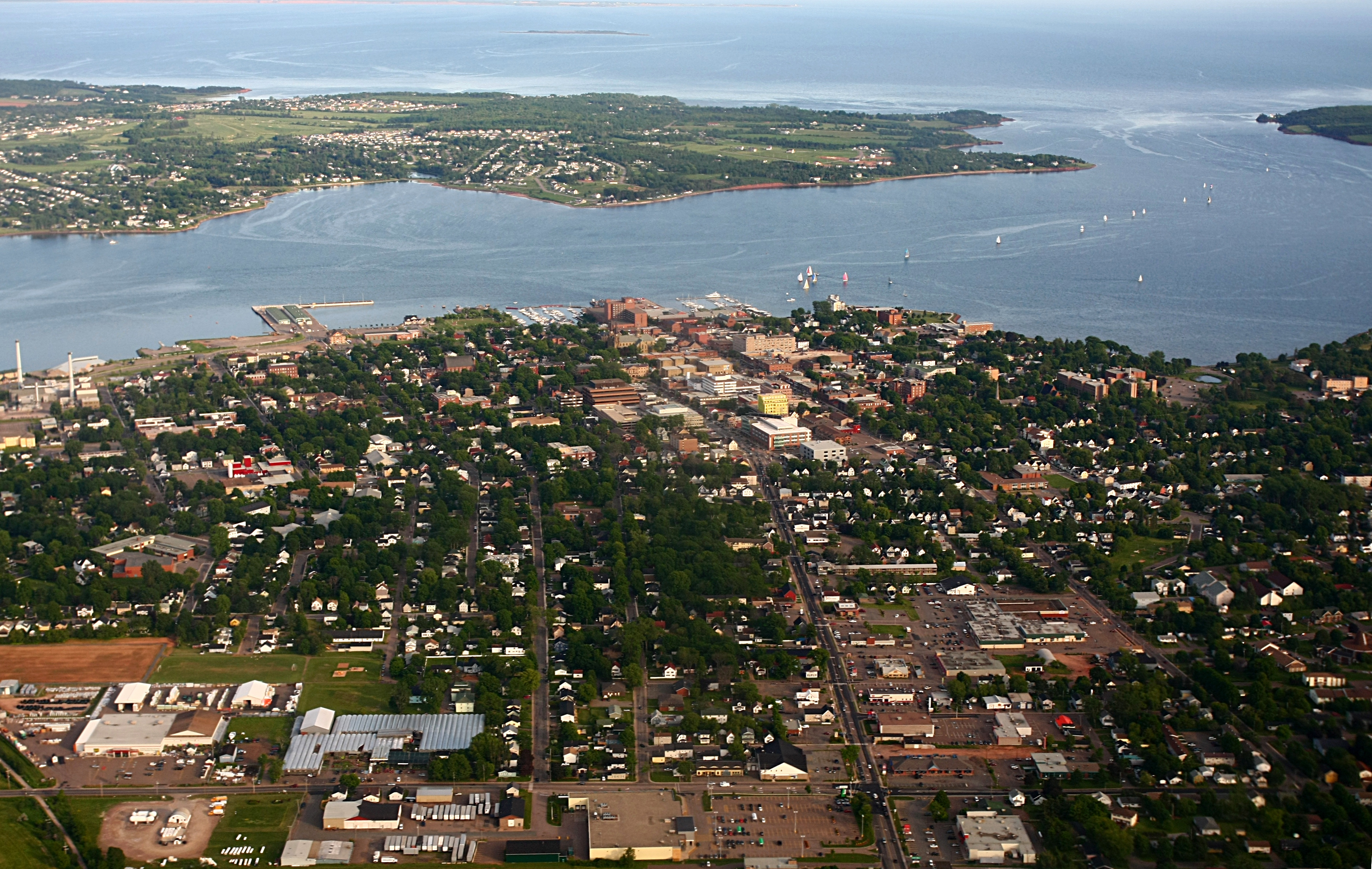 As we flew over headed for the airport, downtown Charlottetown, PEI, Canada, and the waterfront.